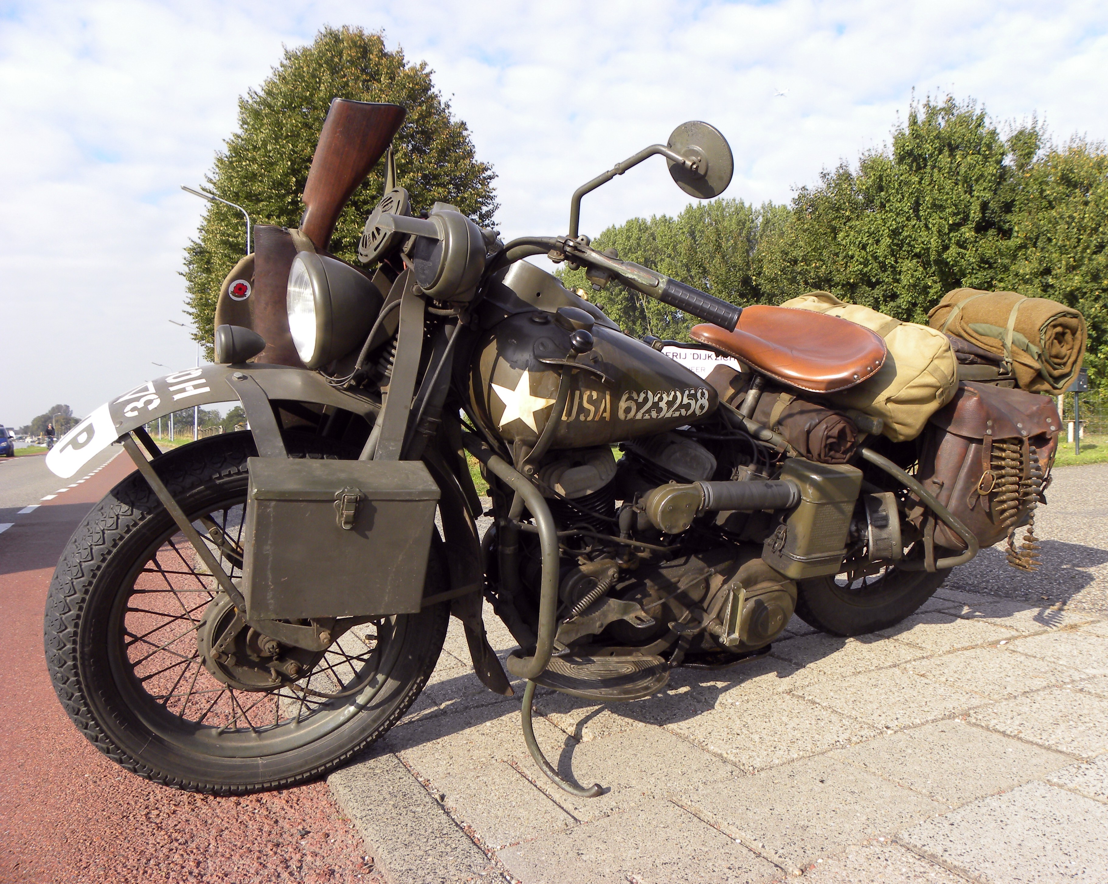 seen at crash 40-45 museum, red ball express event